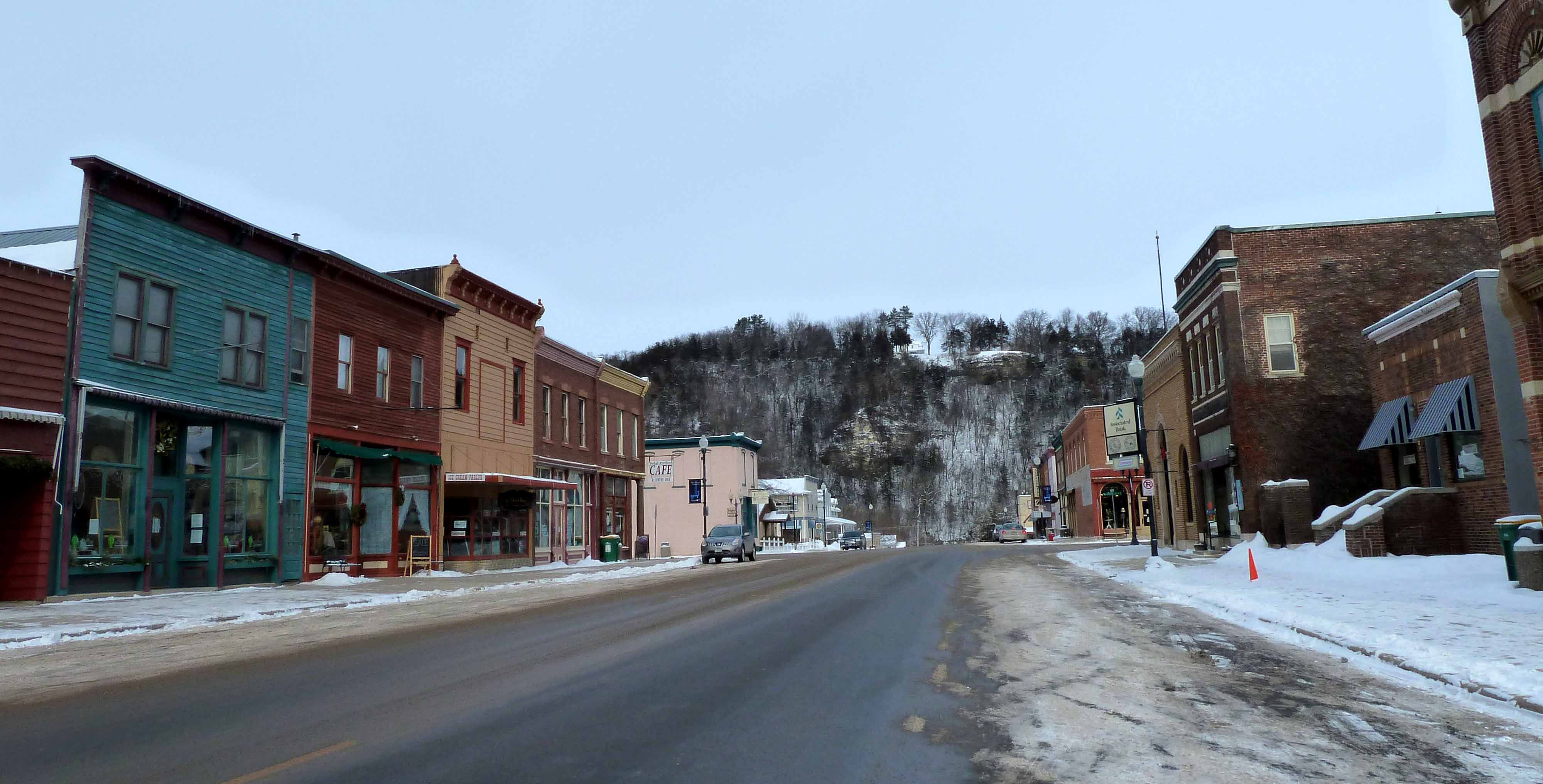 Lanesboro Historic District, Lanesboro, Minnesota, USA.